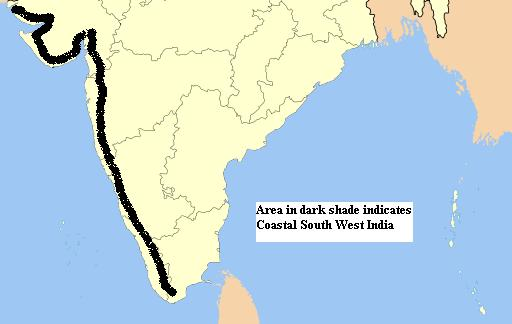 This map shows Coastal South West India which spans from the coastline of the Gulf of Kutch in its western most corner and stretches across the Gulf of Khambhat, and through the Salsette Island of mumbai along the Konkan and southwards across the Raigad region and through Kanara and further down through Mangalapuram or Mangalore and along the Malabar unto the southernmost tip to Cape Comorin.